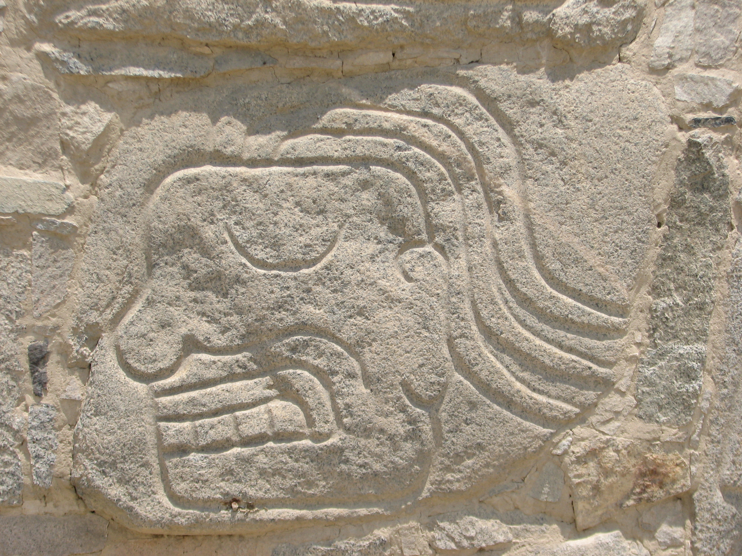 Sechín Archaeological site (relief - head)